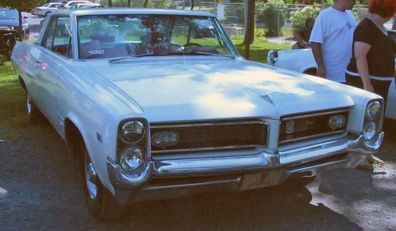 Pontiac Grand Prix photographed in Laval, Quebec, Canada at the Auto classique Laval.